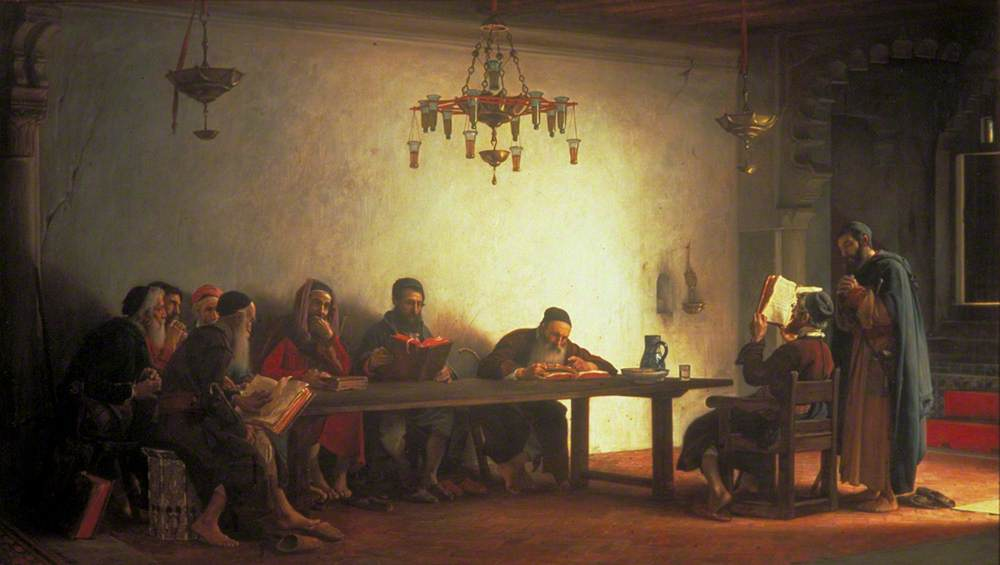 The reading of the bible by the rabbis - a souvenir of morocco by Jean-Jules-Antoine Lecomte du Nouÿ